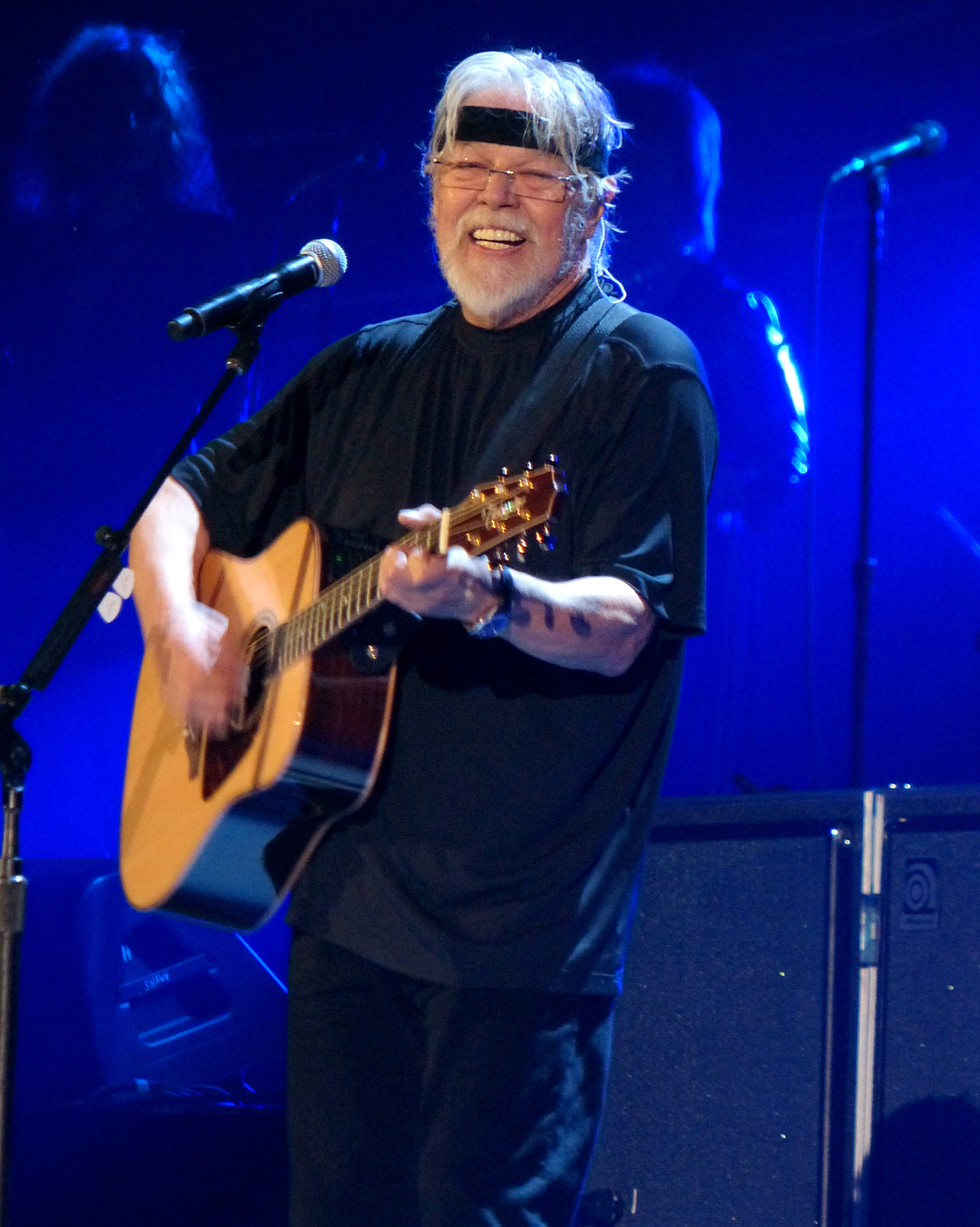 Bob Seger headlining with Kid Rock 3-16-2013 at the Fargodome in Fargo, ND